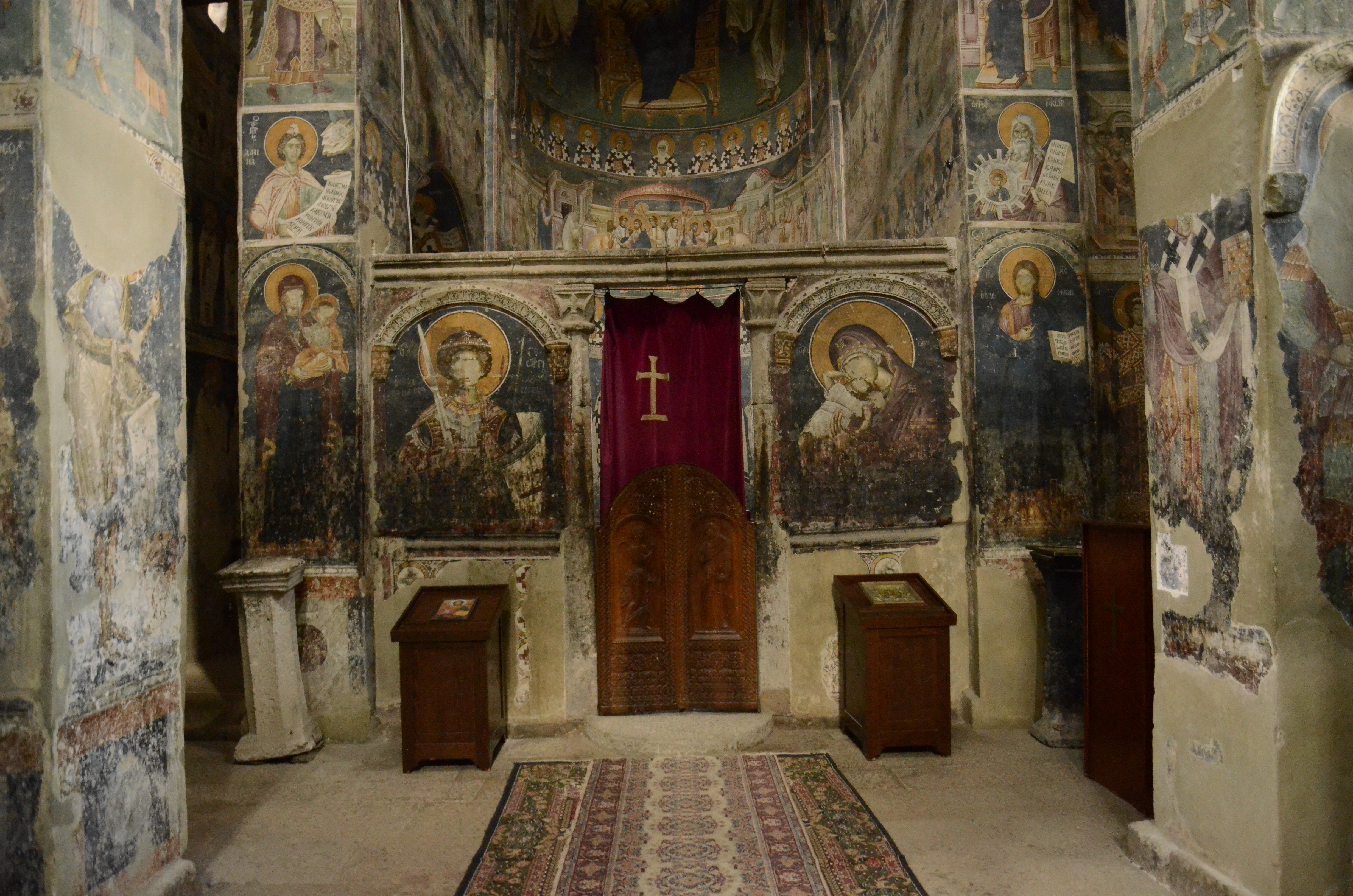 Church of Saint George in Staro Nagorichino, iconostase with Mary and Saint George